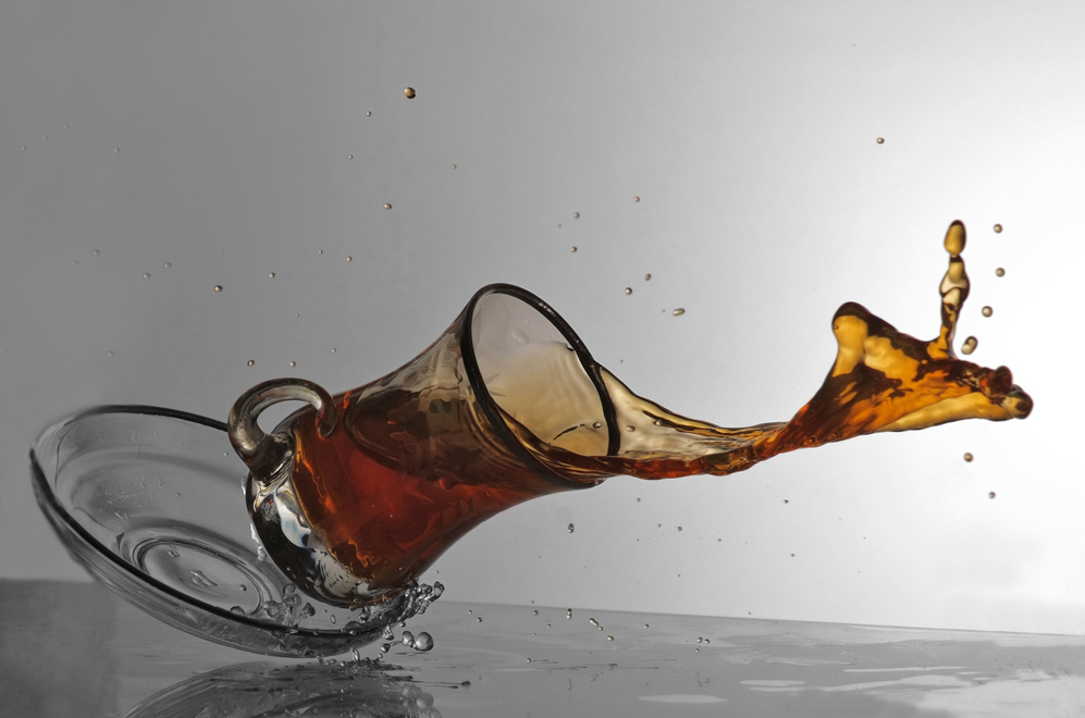 A cup of tea. This Photo is a result of "High Speed Photography" Course By Teacher: Mohammed Jawad Al.Moemn (Photographer from KSA) in Kuwait Science Club الصورة من نتائج دورة "التصوير فائق السرعه" مع الاستاذ محمد جواد المؤمن (مصور سعودي) - في النادي العلمي الكويتي ============= Gear: FUJIFILM FinePix S5Pro Exposure Time: 1 sec. F-Number: 8 8 - TELEPHOTO ISO: 100 Exposure Program: Manual Flash: 2 side flashs (Flash Duration 1/6600 sec. at M 1/8 output) + Voice sensor Rate my photo: 1 2 3 4 5 6 7 8 9 10